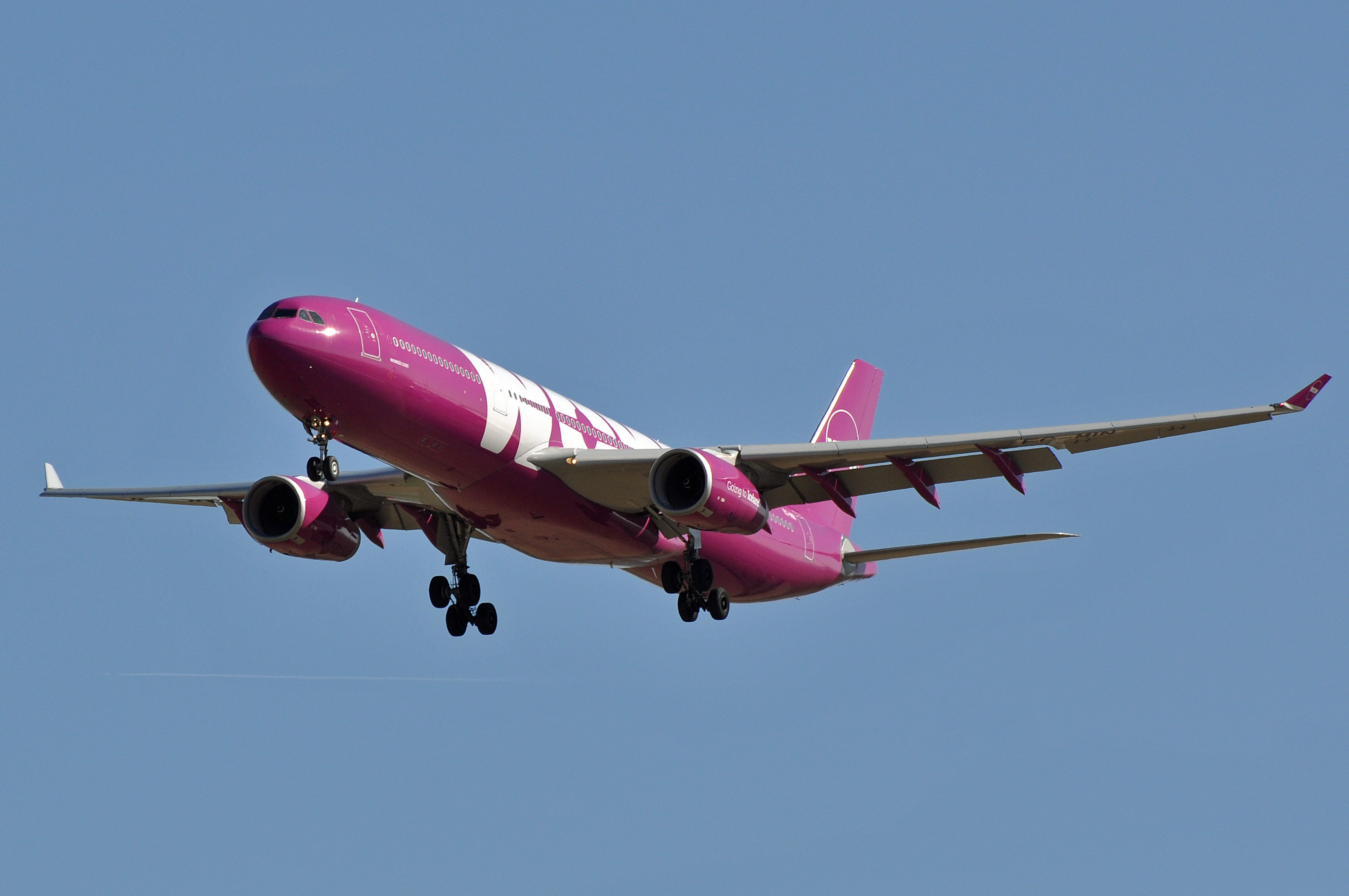 MSN 1607 A330-343E WOW CDG AIRPORT EX AIR EUROPA AS EC-MIN